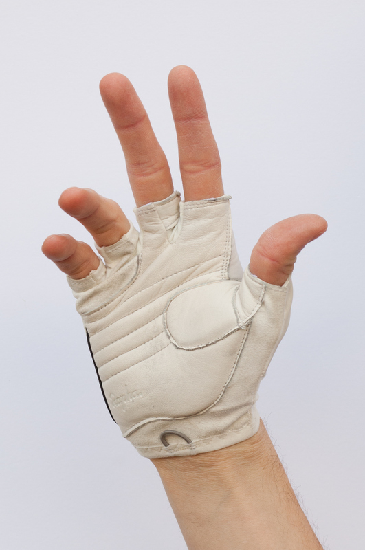 Cropped version of White leather fingerless cycling glove.jpg by Lewis Ronald